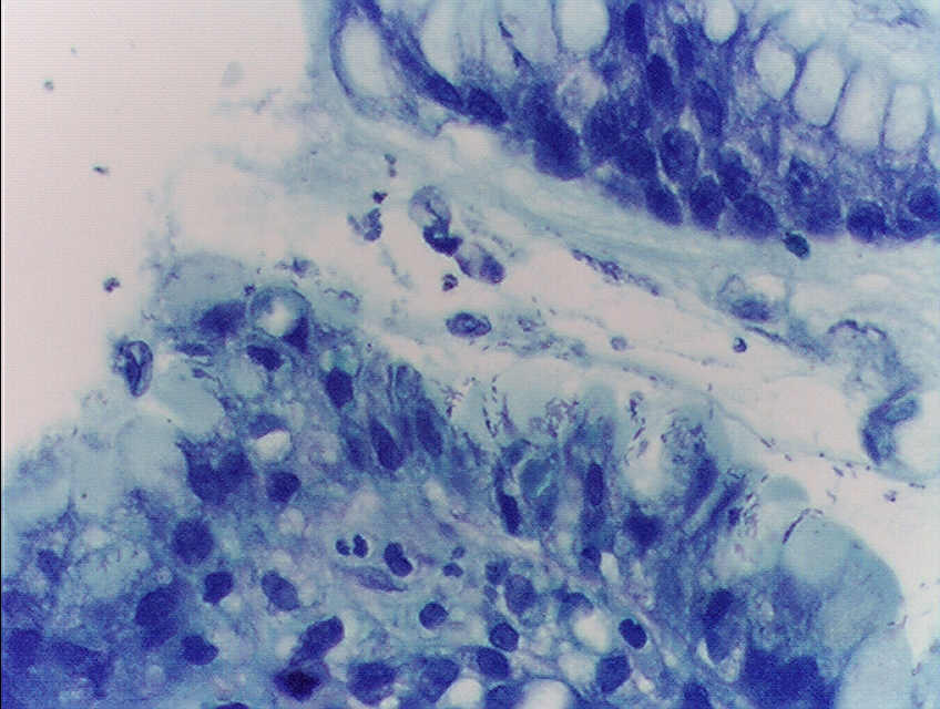 Gastric biopsy, Giemsa, 400x. Helicobacter pylori is visible inside mucus.